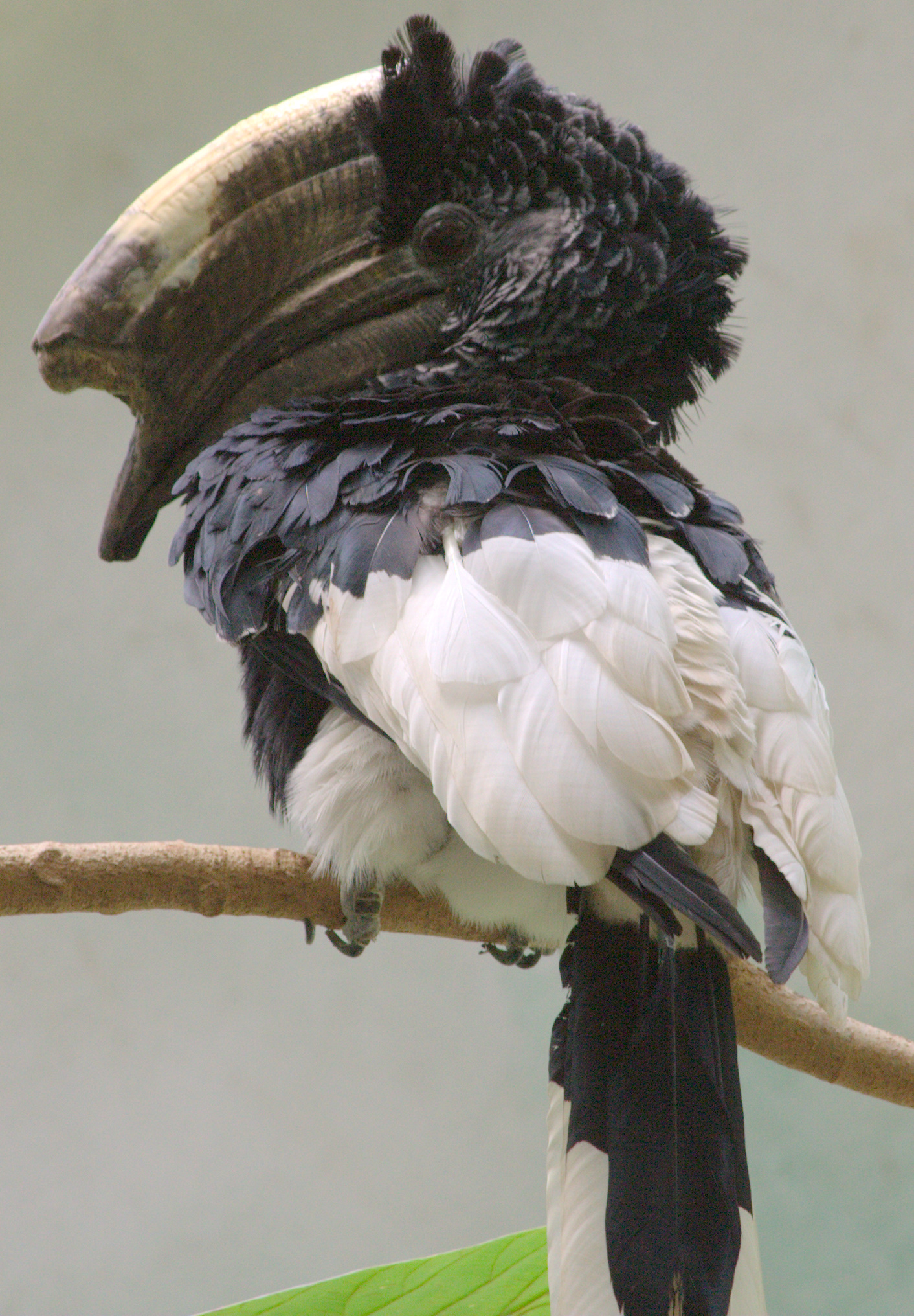 Black-and-white-casqued Hornbill (Ceratogymna subcylindricus Syn. category:Bycanistes subcylindricus) at the Bronx Zoo.